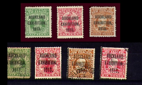 "Auckland Exhibition 1913." overprinted stamps of New Zealand. The bottom row are forgeries, from an auction listing on Ebay. Note the elongated font, and the Wellington postmark on the 3d stamp (the overprints were only sold in Auckland).